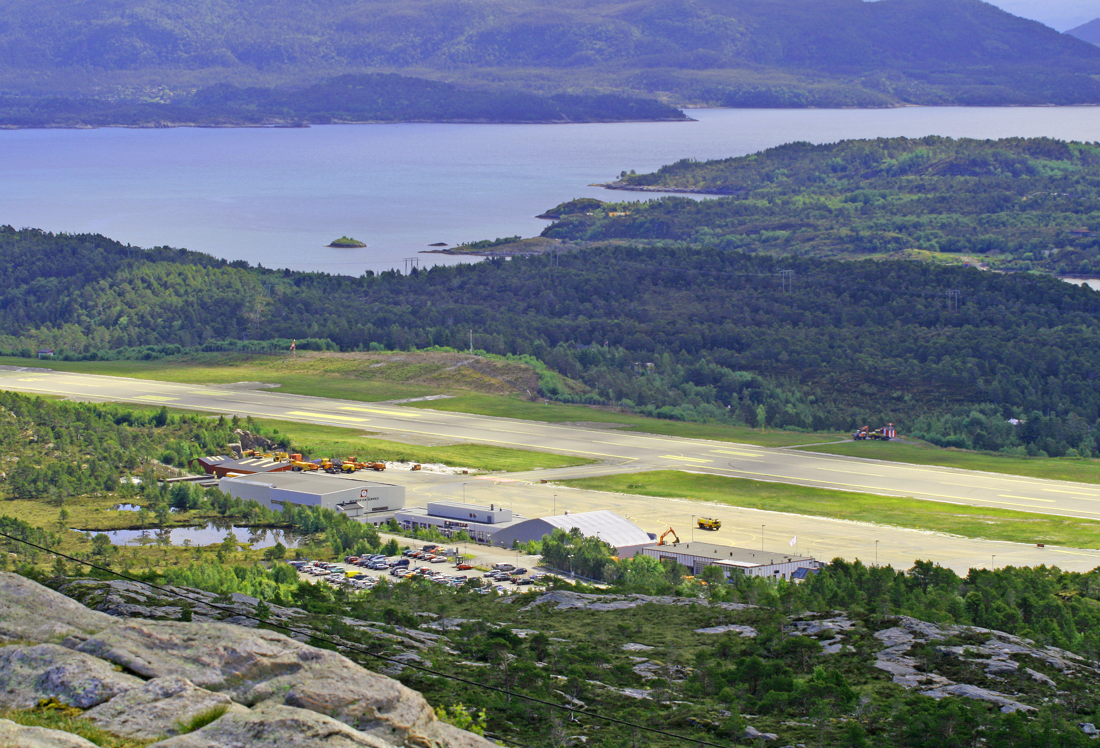 Overview, KSU